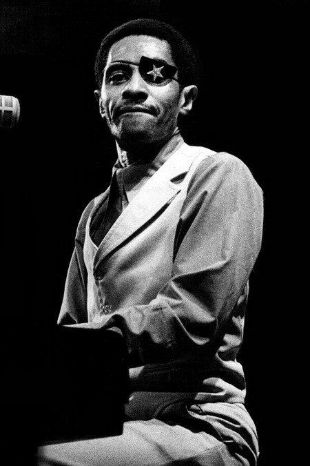 New Orleans rhythm and blues and soul pianist and singer James Booker in Montreux, Switzerland